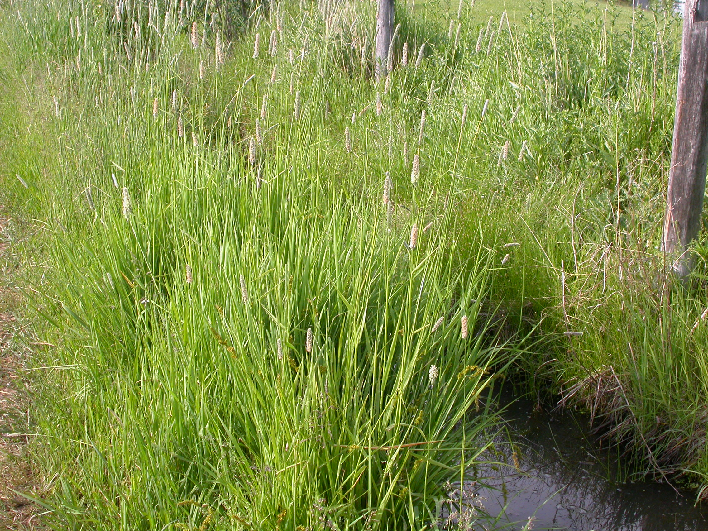 Alopecurus arundinaceus inhabits riparian settings and wet meadows and typically stands taller than timothy grass.